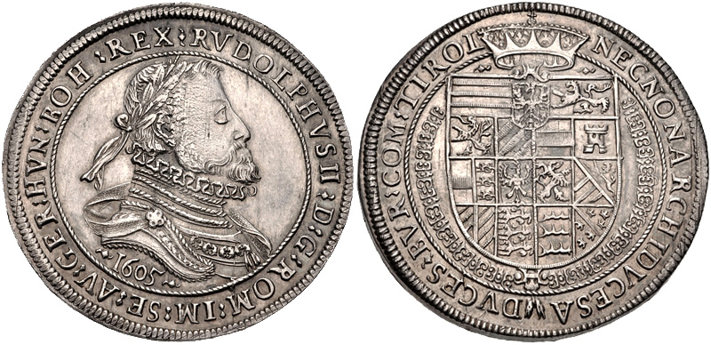 Austria, Holy Roman Empire. Rudolf II. Emperor, 1576-1611. AR Thaler (41mm, 28.75 g, 12h). Hall mint. Dated 1605. · RVDOLPHVS II · D : G : ROM : IM : SE : AV : GER : HVN : BOH : REX (tasseled and double lozenge stops), laureate and armored bust right, wearing elaborate collar and Order of the Golden Fleece NEC NON ARCHIDVCES A DUCES · BVR : COM : TIROL (tasseled and double lozenge stops), crowned coat-of-arms; all within Order of the Golden Fleece. Moser & Tursky 376; Davenport 3005c; KM 601.3. EF, toned.